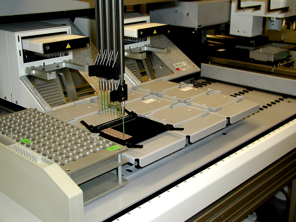 Public domain image from TECAN Genesis 2000 robot preparing Ciphergen SELDI-TOF protein chips for proteomic pattern analysis. Highly accurate cancer prognosis can be accomplished by identifying protein patterns of specific cancers using this device.